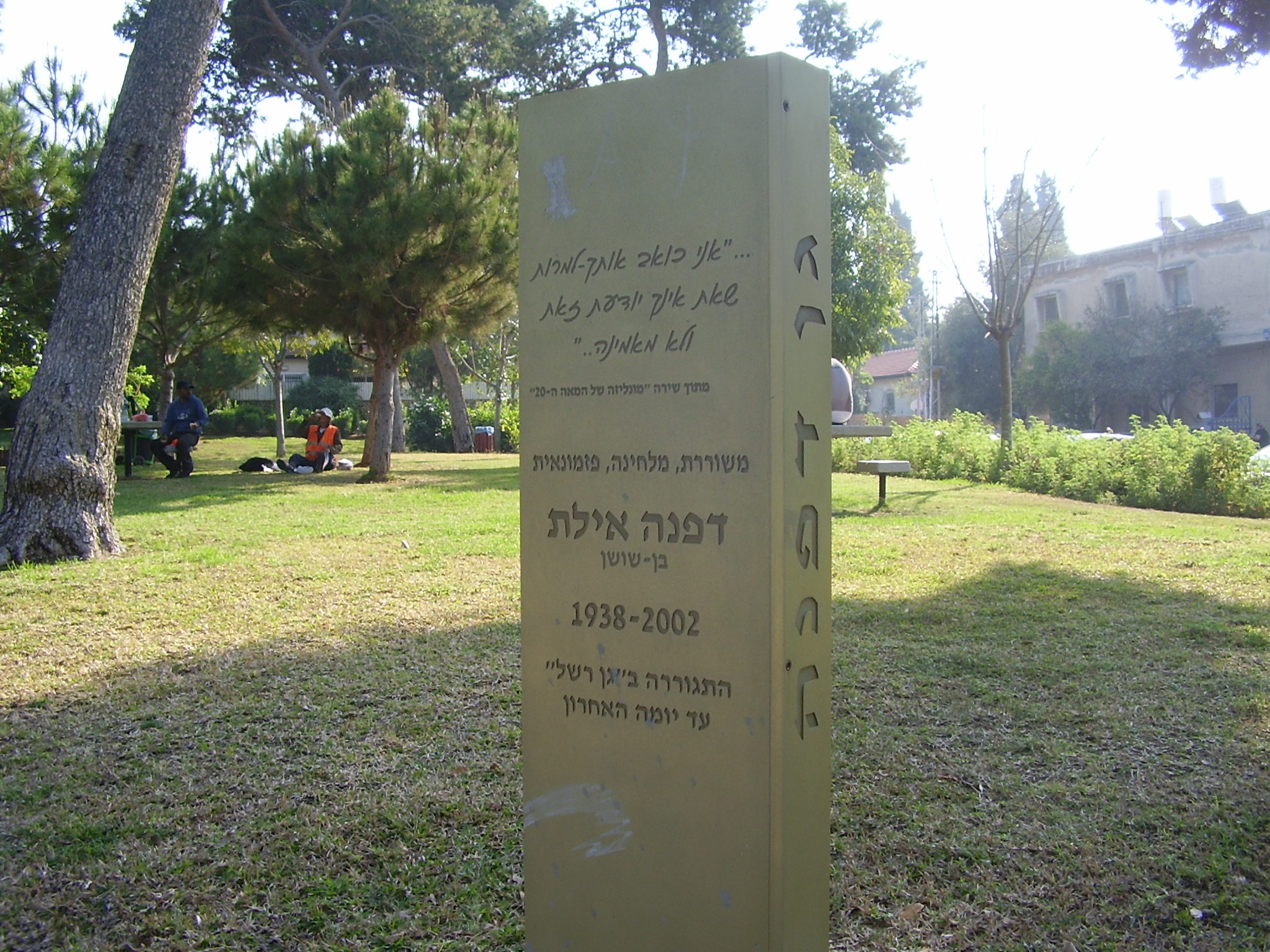 dafna eilat garden in herzliya